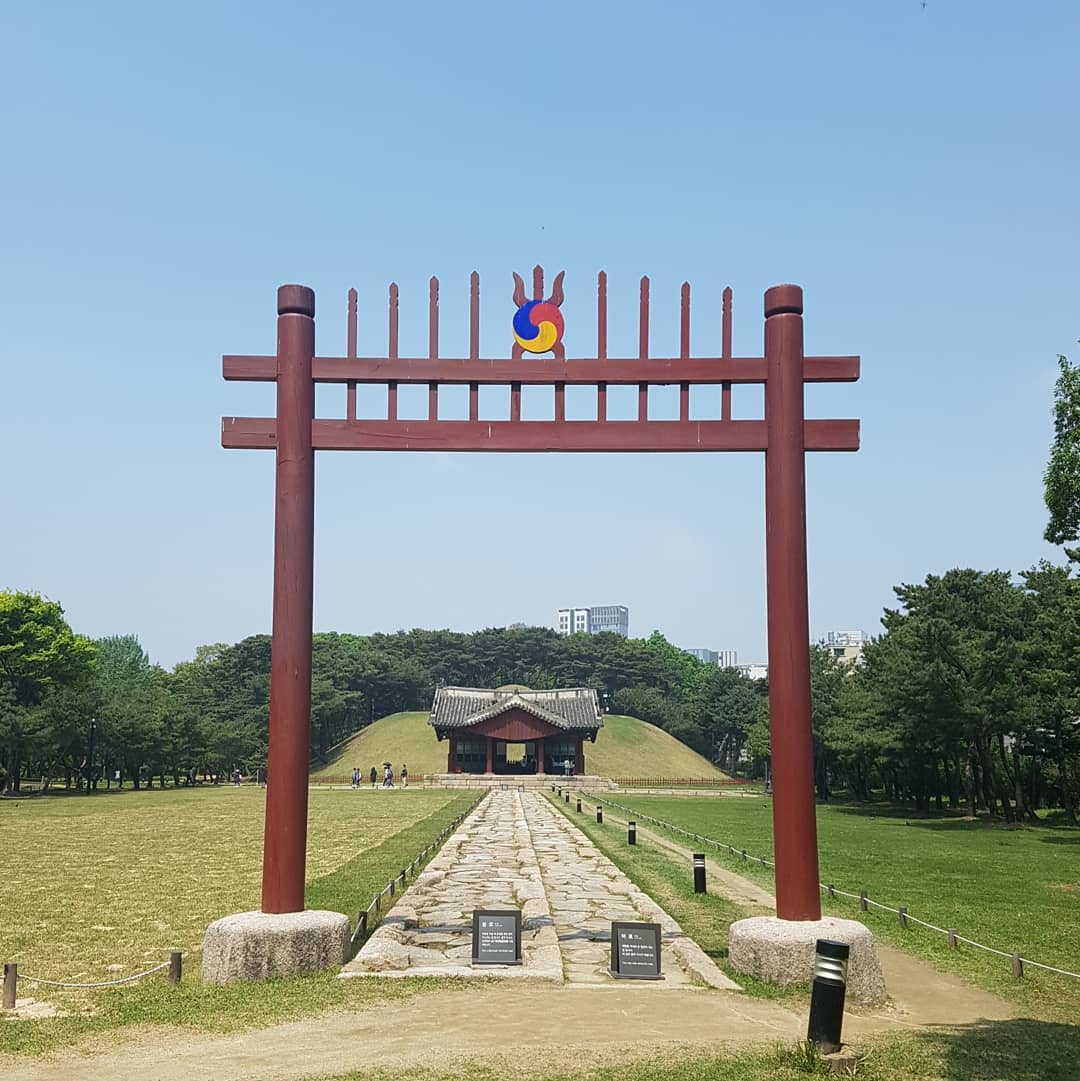 Jeongneung, view from the Hongsalmun- the tomb of King Jungjong, at the Seonjeonneung site